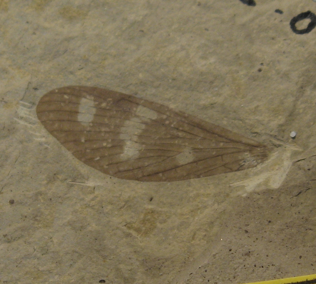 Eorpa species hind wing, possibly E. ypsipeda. Stonerose Interpretive Center specimen SR 08-35-04, "Boot hill", Site B4131 Klondike Mountain Formation.